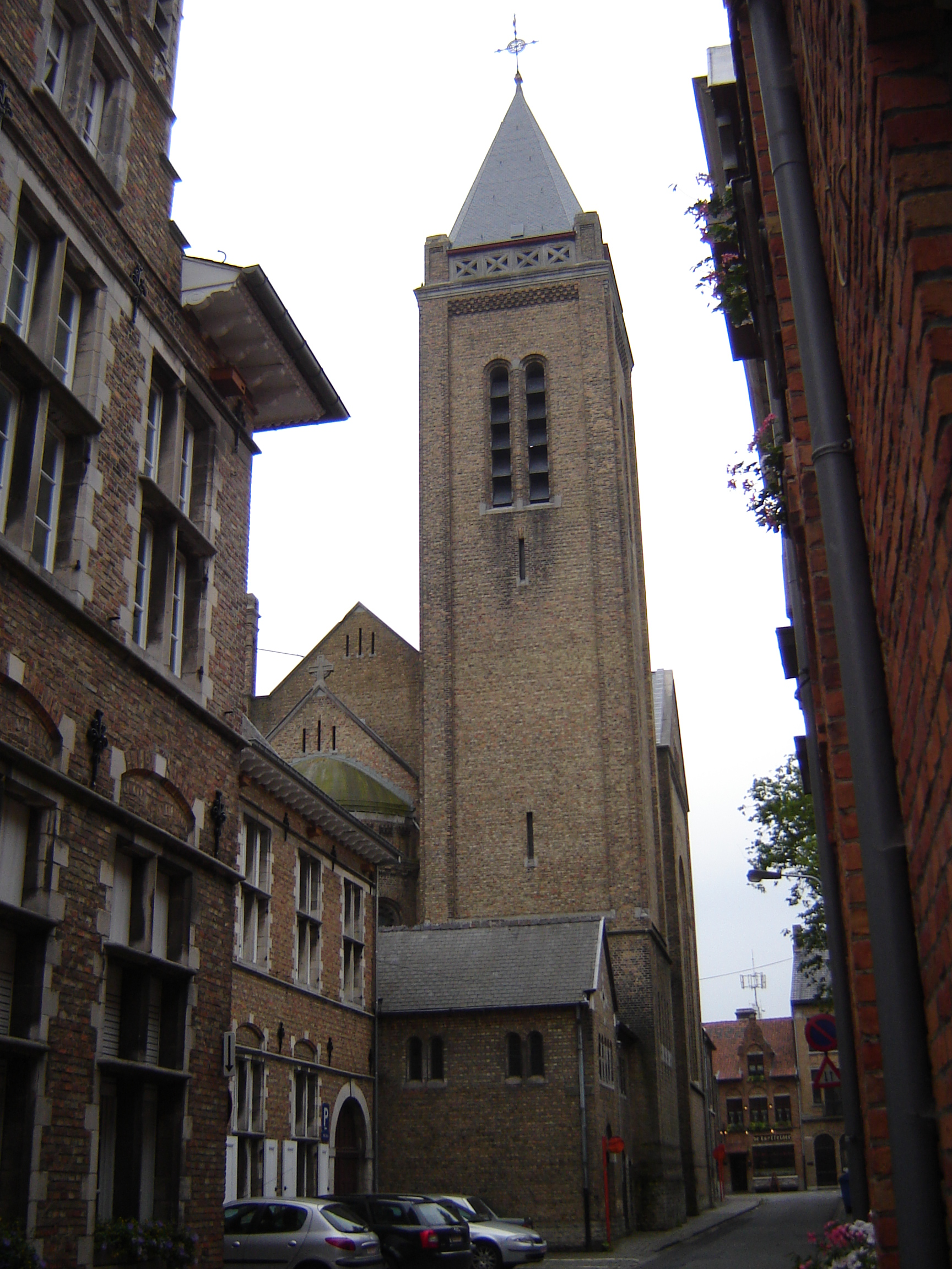 Church of Saint Nicolas in Ieper. Parish church until 1994. Ieper, West Flanders, Belgium